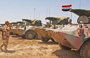 An Iraqi soldier guides a Ukrainian-made BTR-94 to a parking place. Several hundred light armor vehicles were donated to the Iraqi government by Jordan.